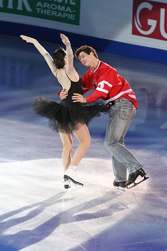 2010 World Figure Skating Championships gala - Tessa Virtue and Scott Moir